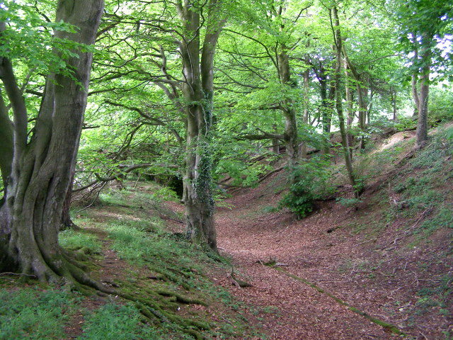 Southwest ditch and rampart at Clearbury Ring. The ditch (centre) and rampart (right) of this iron-age hillfort support a large number of trees, mainly beech, which make this an even more prominent local landmark. There was a fashion at some time in the past (1700s?) for planting ancient earthworks with beech trees to improve their aspect; nearby Old Sarum is a case in point.